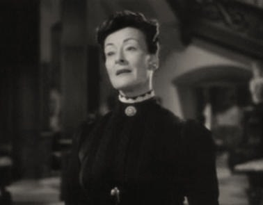 Rafaela Ottiano in Topper Returns - cropped screenshot